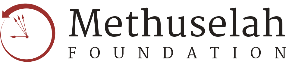 Methuselah Foundation Logo